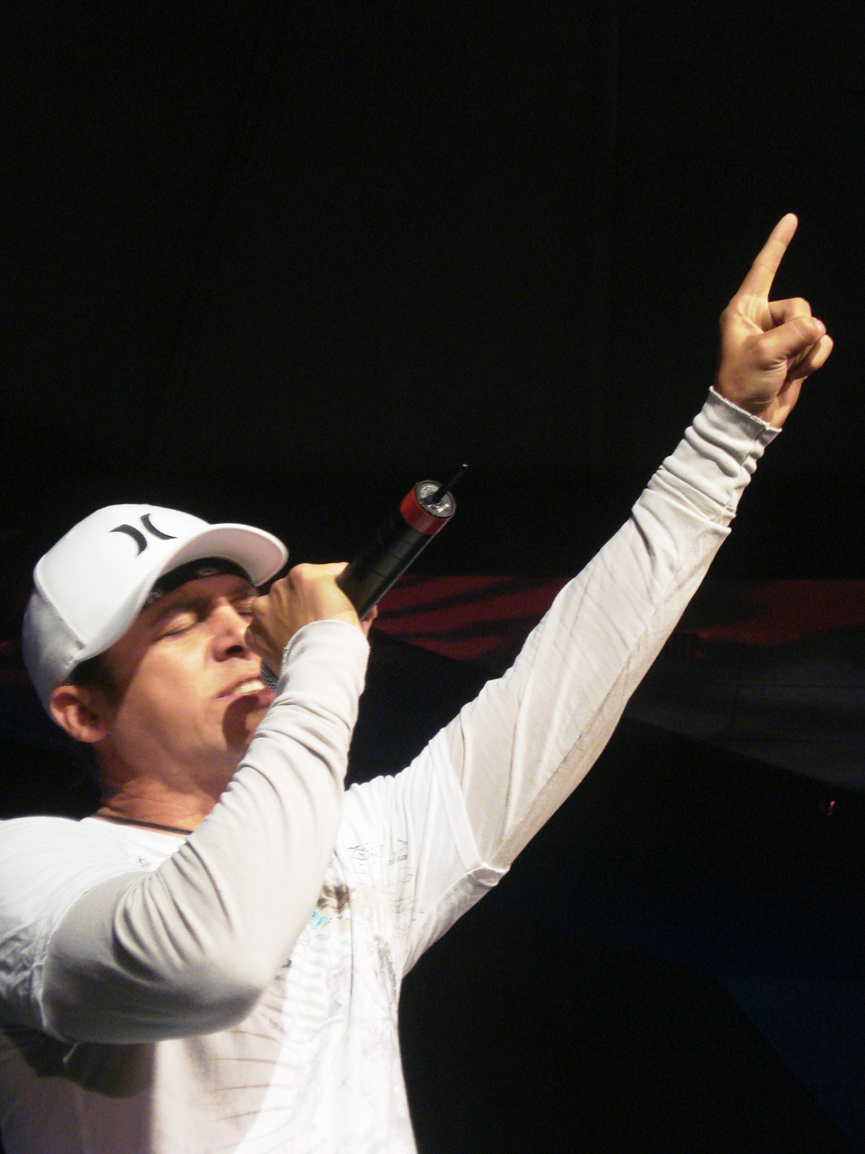 Gerardo performing at the eleva conference, fouded by Jeff Tolle.